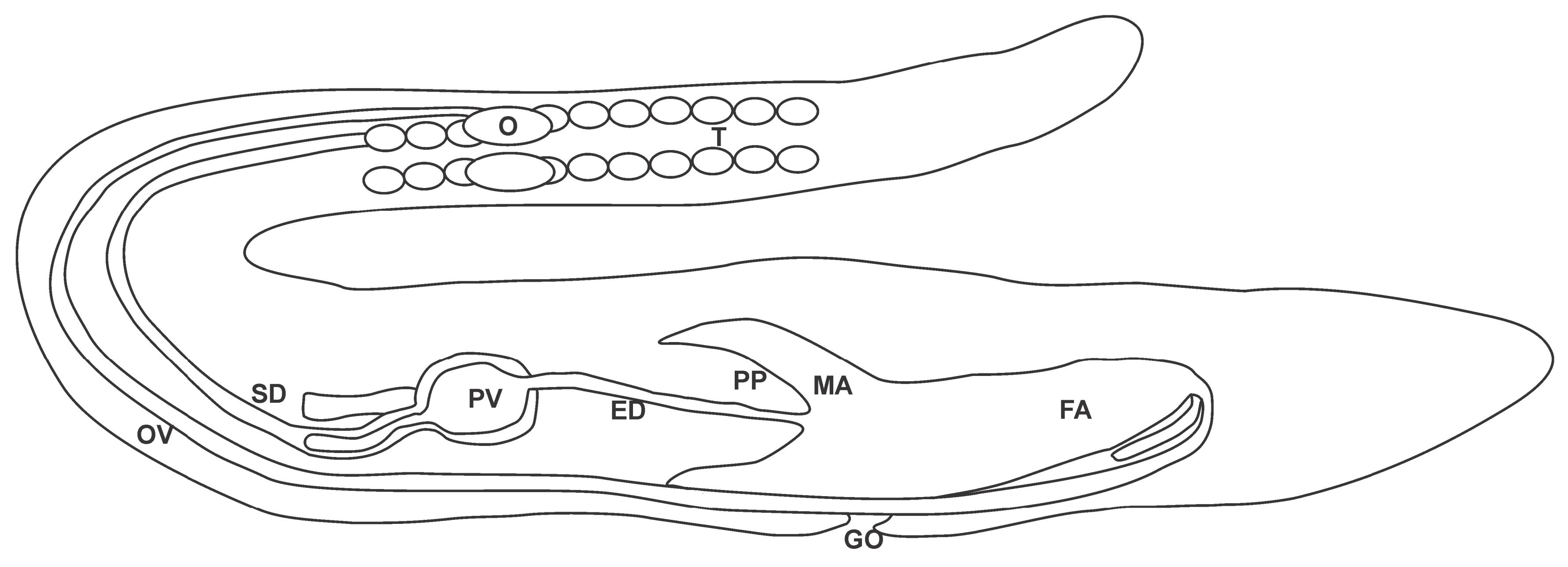 Simplified version of a planarian's reproductive system. ED - ejaculatory duct, FA - female atrium, GO - gonopore, MA - male atrium, O - ovaries, OV - ovovitelloduct, PP - penis papilla, PV - prostatic vesicle, SD - sperm ducts, T - testicles.